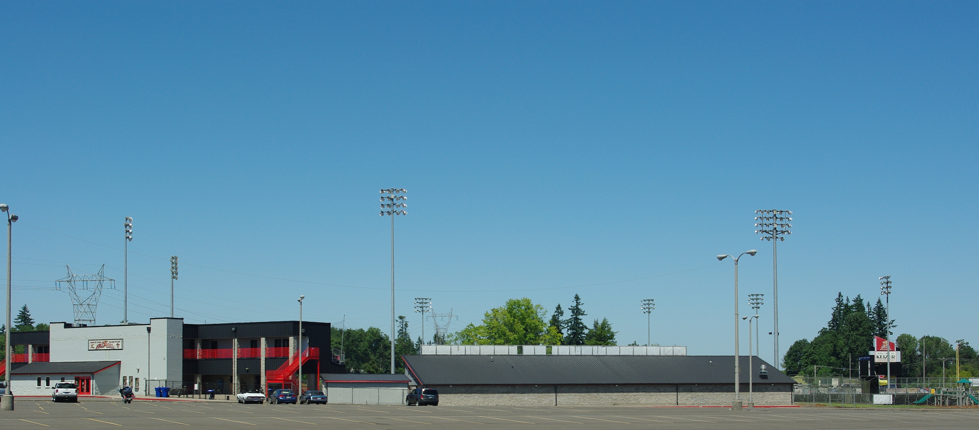 Volcanoes Stadium in Keizer, Oregon, USA